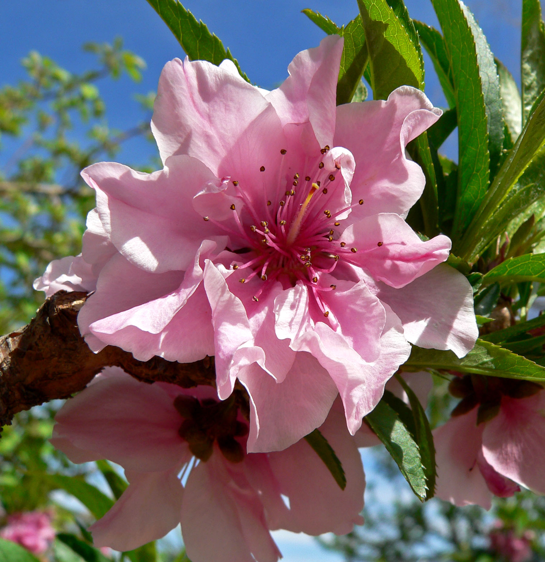 Prunus persica 'Bonanza' at the Springs Preserve garden, Las Vegas, Nevada